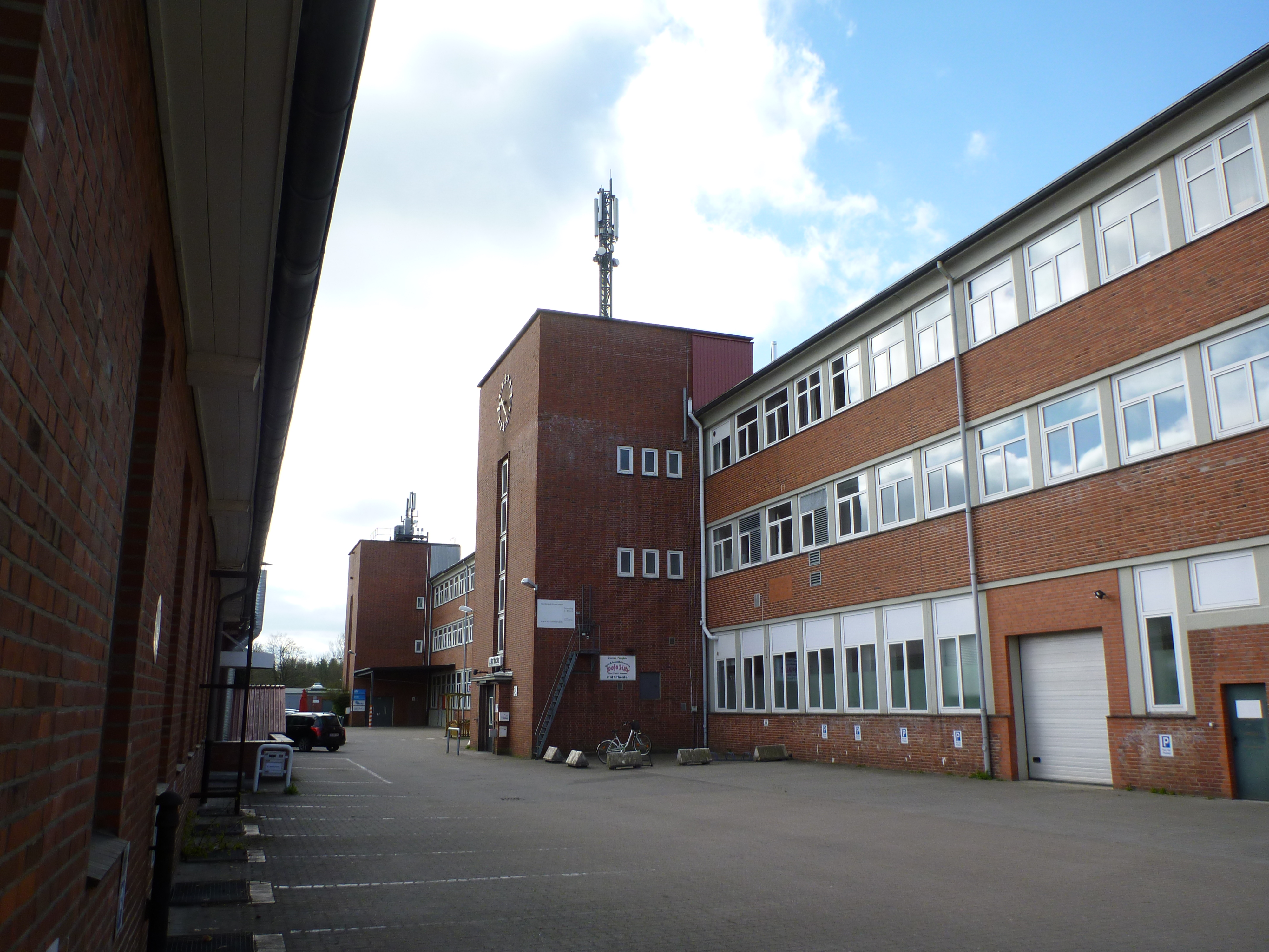 Buildings of the former Emil Köster AG Lederfabriken at Haart 224, in Neumünster, location of the "Statt Theater"